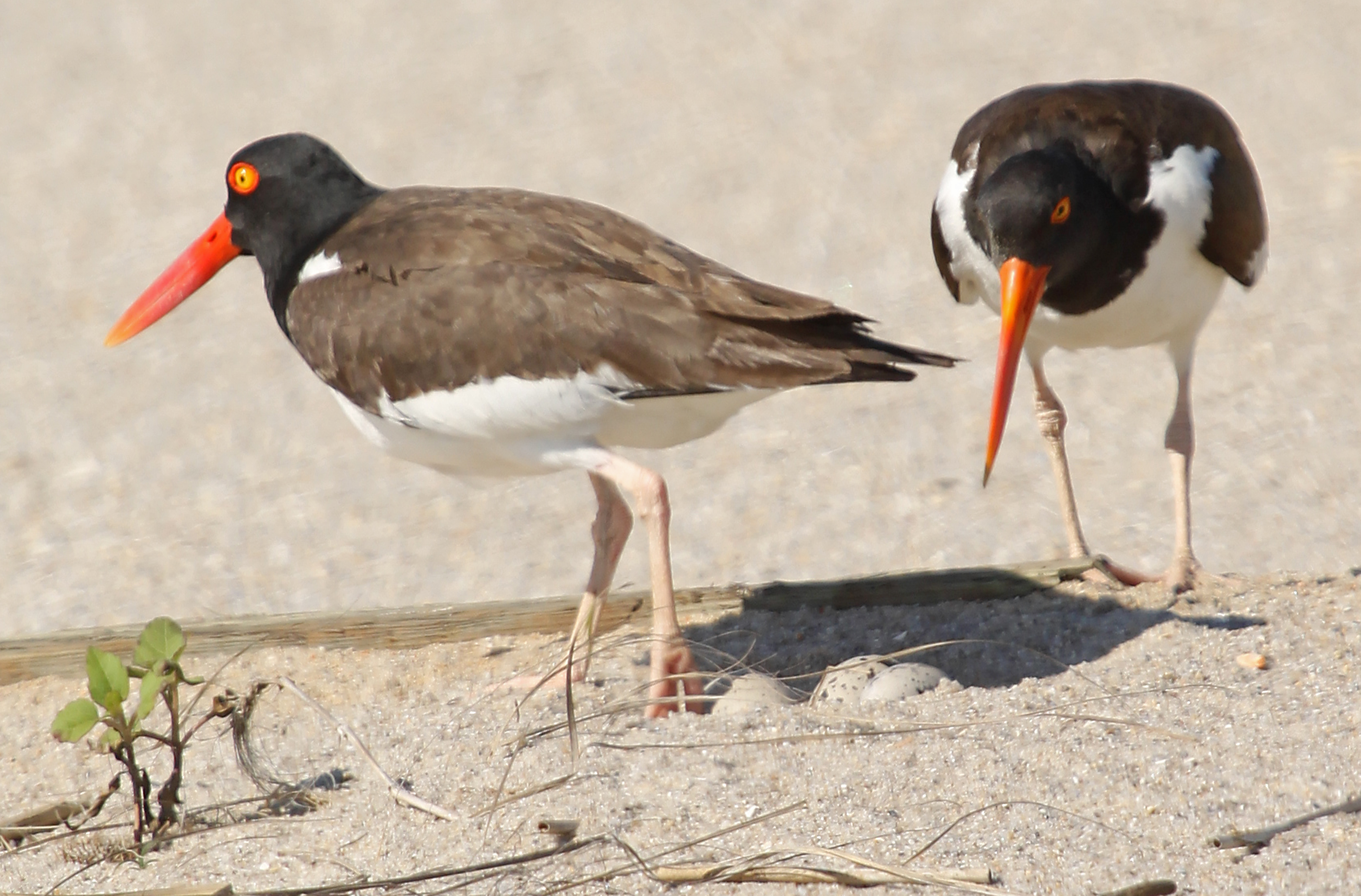 American Oystercatchers standing near their eggs in a nest on the Atlantic coast, Cape May, New Jersey, USA.